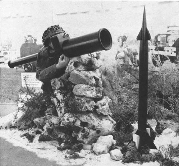 Blowpipe launcher (left) and missile (right) being presented at the 27th Paris Air Show in Le Bourget